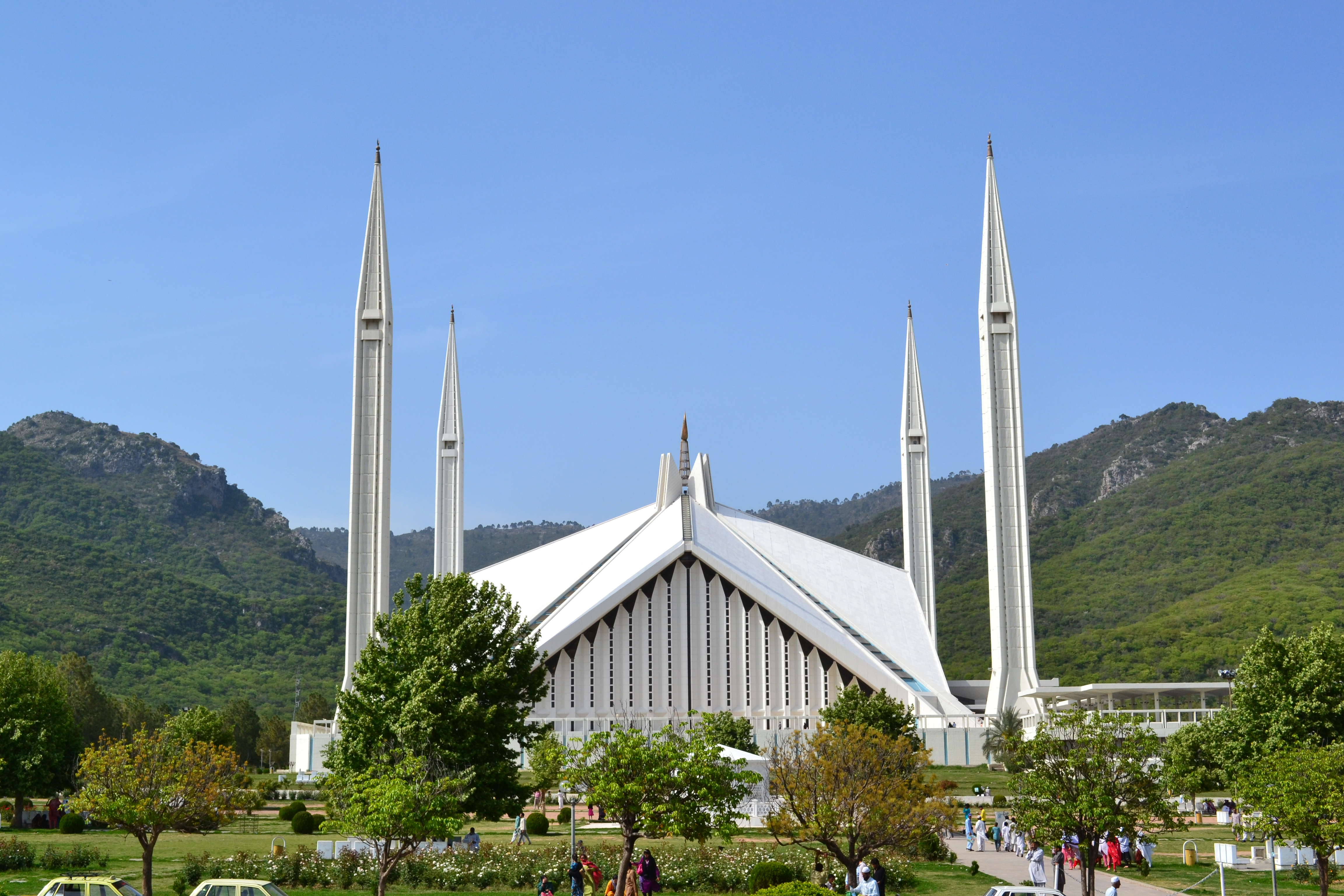 Faisal Maseet